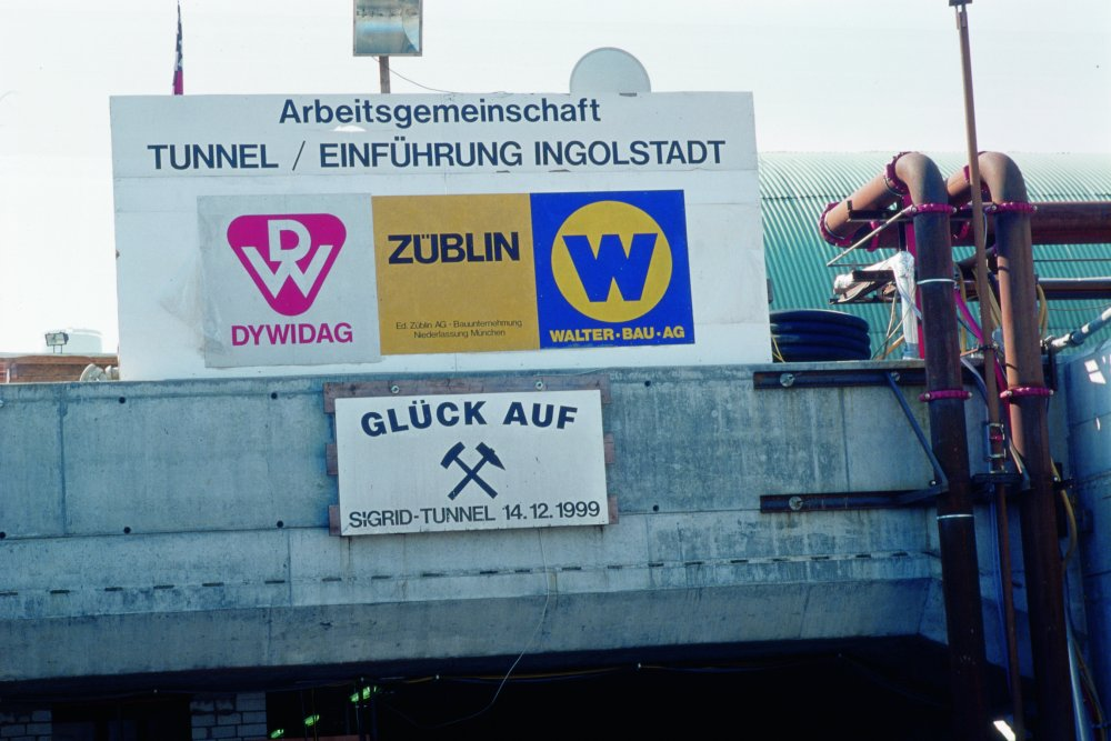 Detail of the south portal of the Audi Tunnel during construction works.